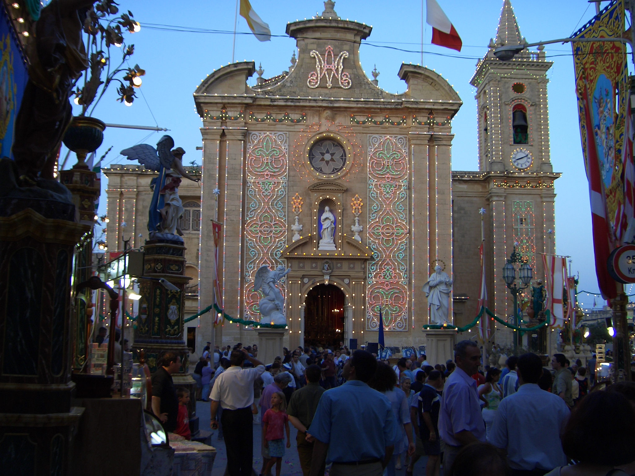 Balzan Parish Church. The church whish is dedicated to the Annunciation of Our Lady, started being built in 1669.